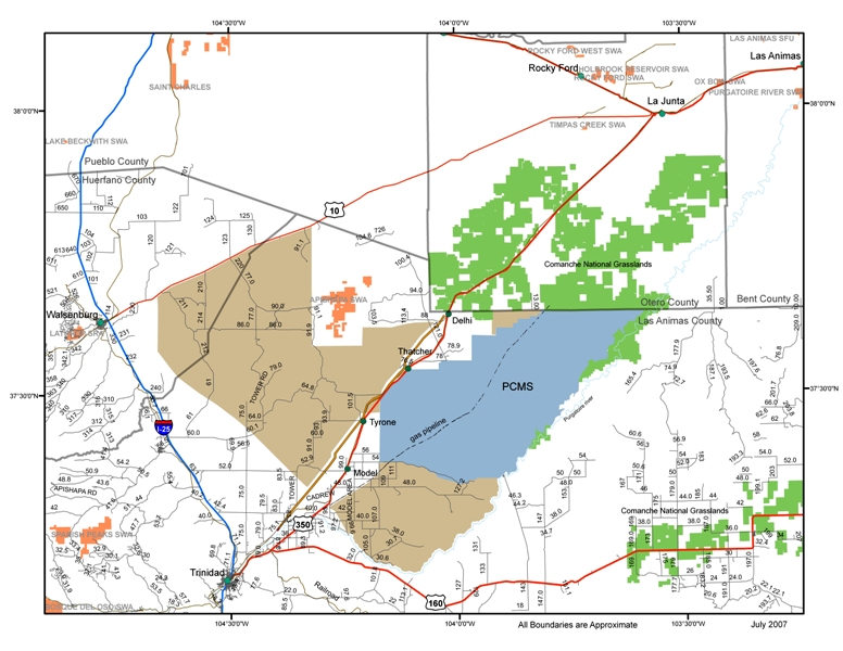 A map showing the proposed expansion of the Piñon Canyon Maneuver Site. Blue is the present PCMS—Piñon Canyon Maneuver Site; Brown is phase one of the proposed expansion; Green is the Comanche National Grassland; Orange is Colorado Wildlife Management Areas